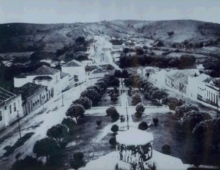 Matriz Square in 1927, Andrelândia, Minas Gerais, Brazil.